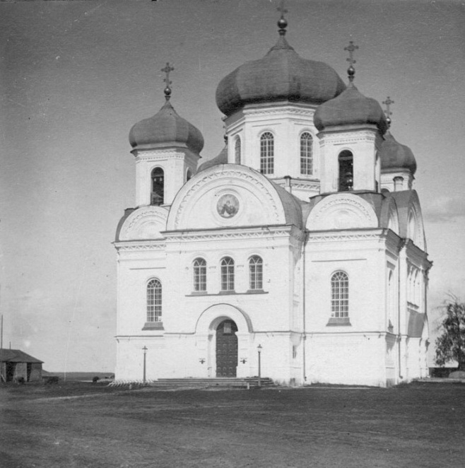 Mologa. Epiphany Cathedral.